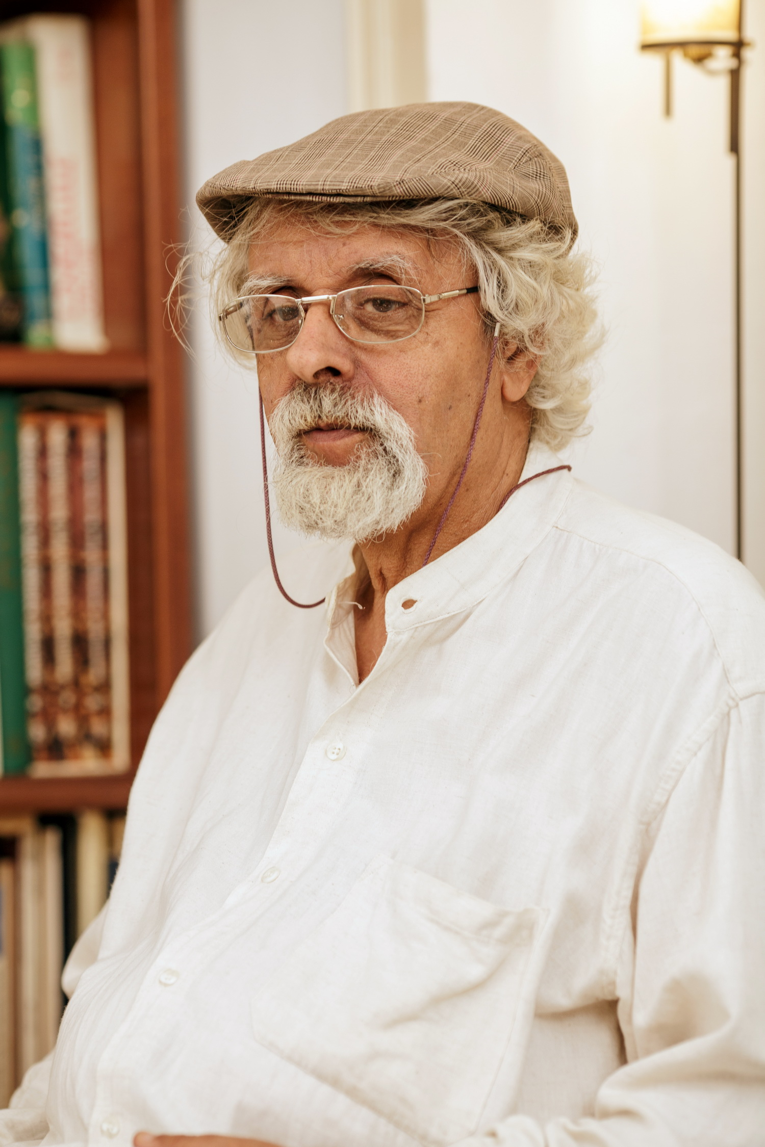 Yigal Tamir